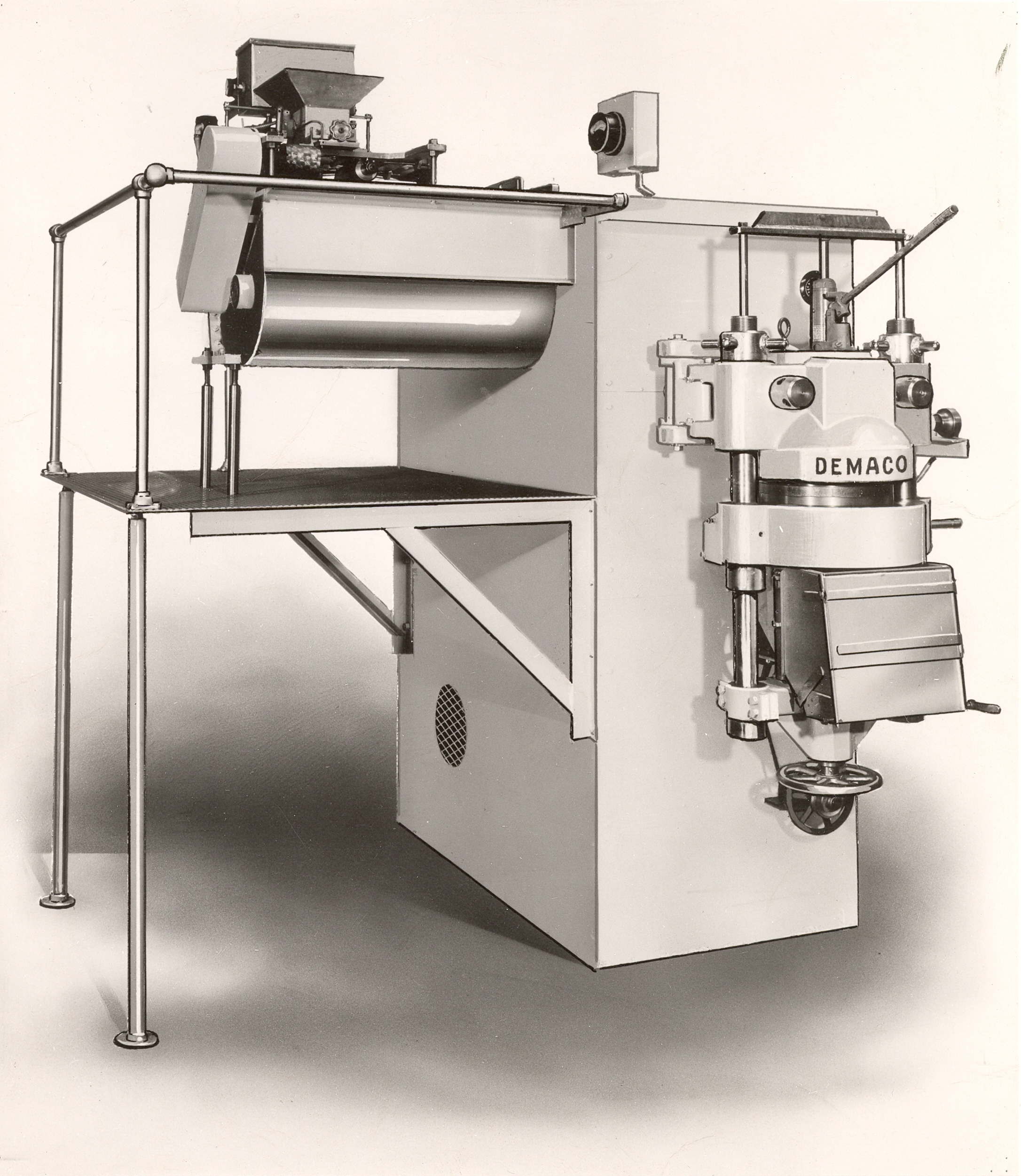 DEMACO 1,000 lbs/hr Short Goods Pasta Press non-vacuum Model CP-1000 from 1958.